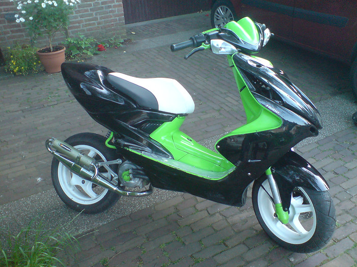 Picture shows a 2005 build Yamaha Aerox painted green/black